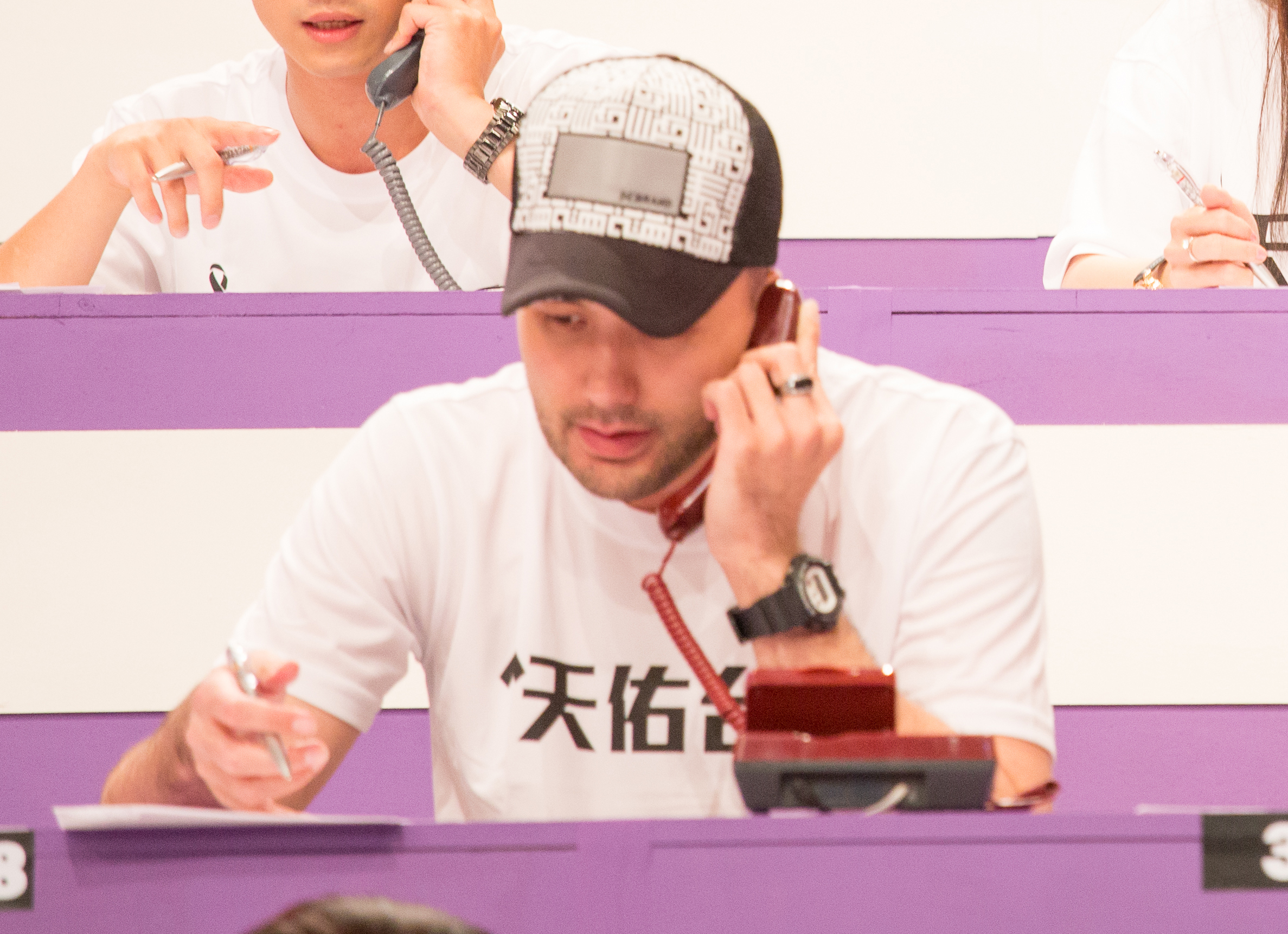 Jerry Huang at a fundraising event for 2014 Kaohsiung gas explosions